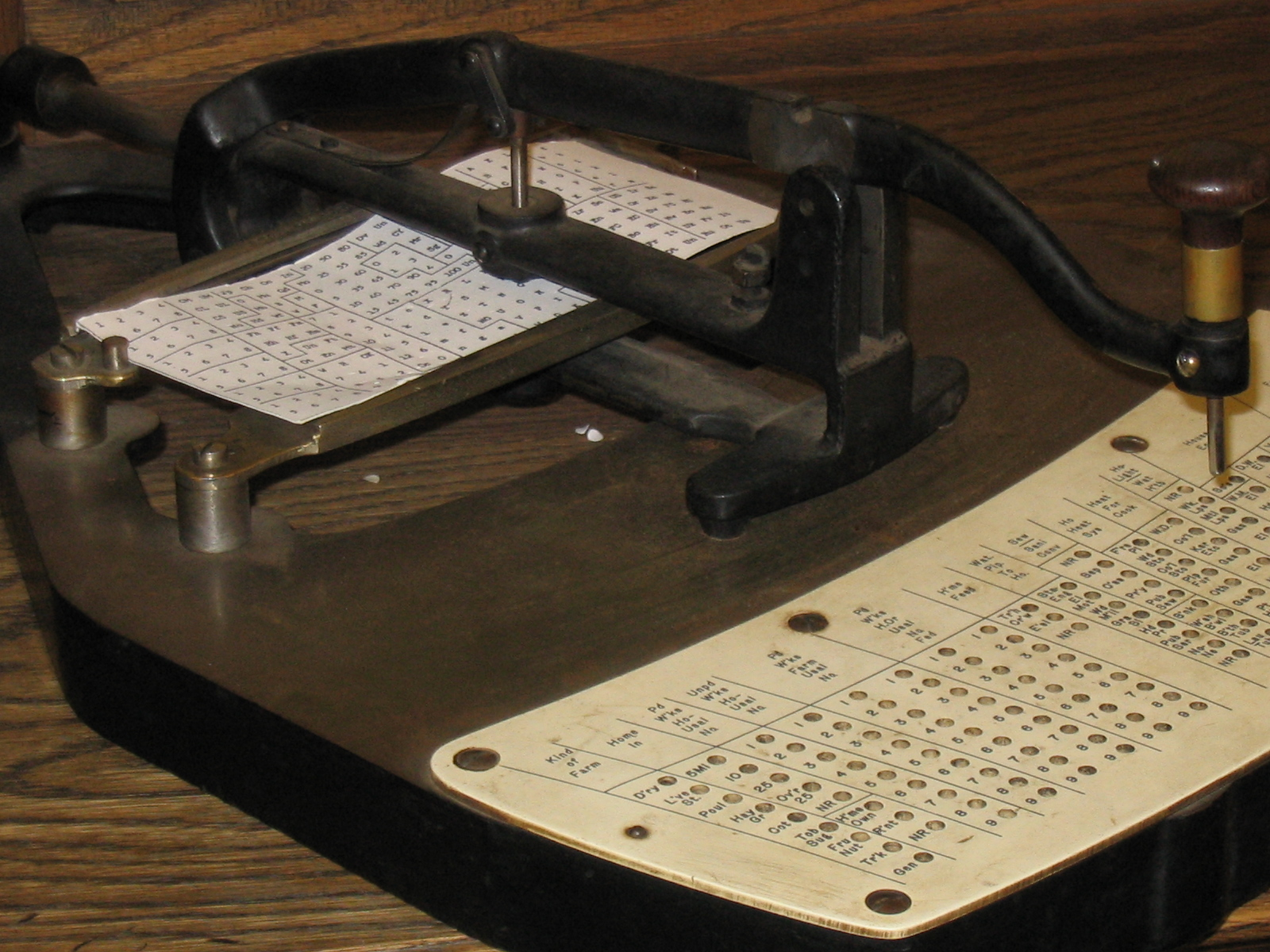 Hollerith card punch. Photo taken at the Computer History Museum